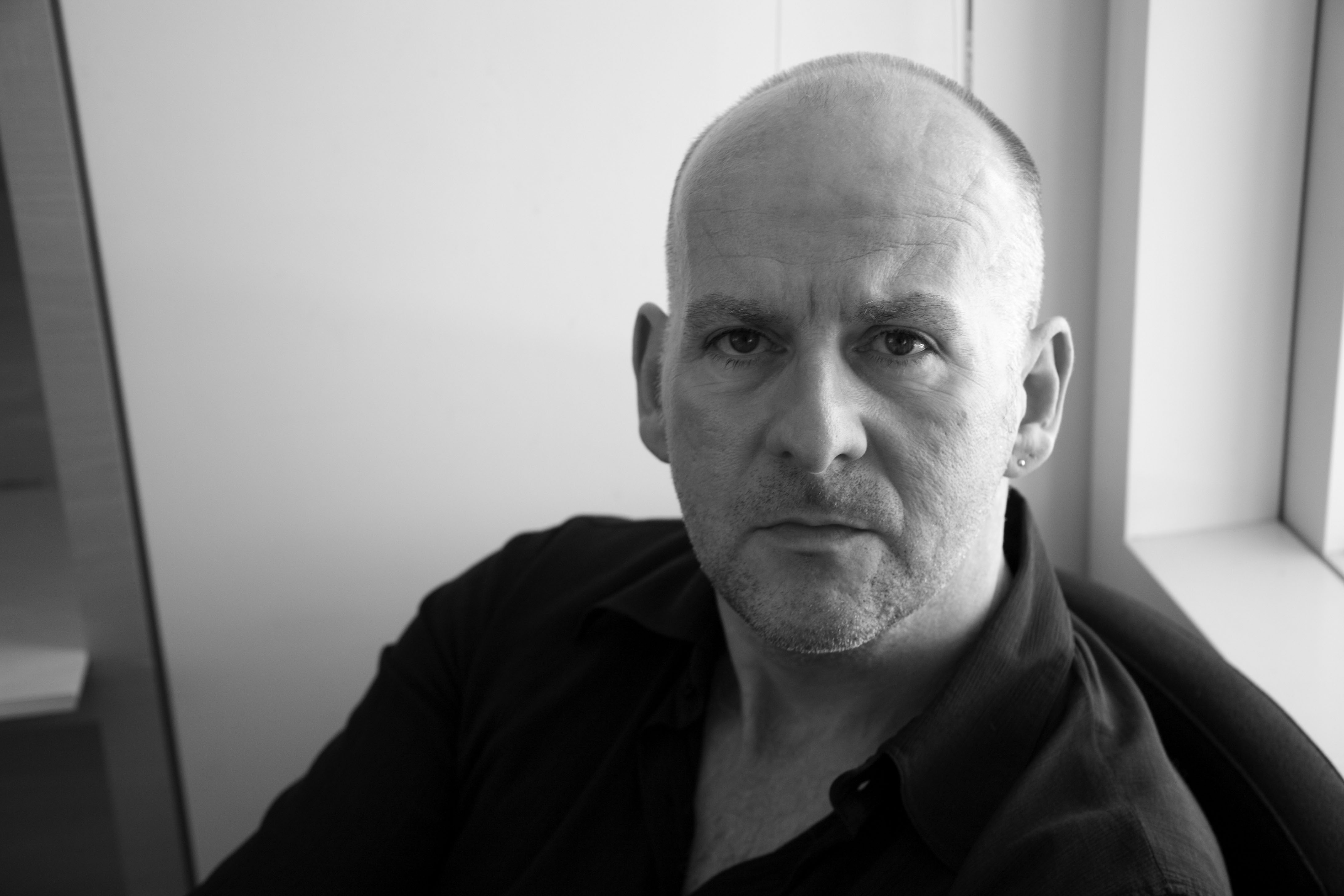 Black and white head shot of Philosopher Simon Critchley